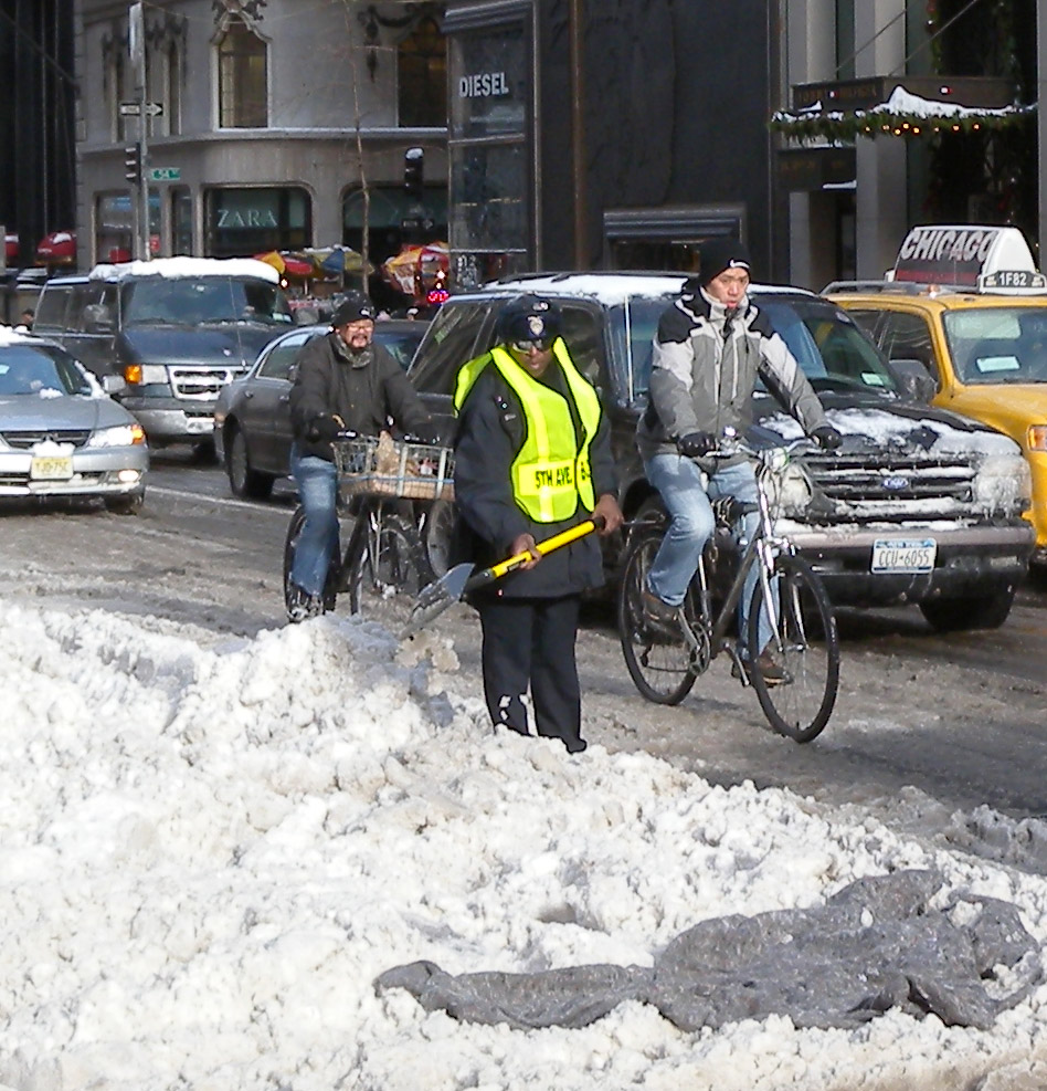 Looking northeast as bicyclers go down 5th Avenue after a snowfall.